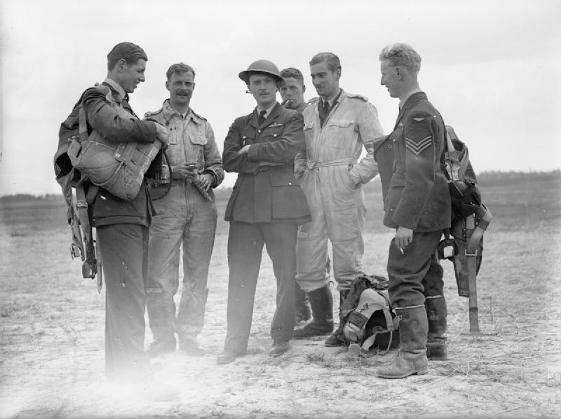 Royal Air Force- France, 1939-1940. The Commanding Officer of No. 501 Squadron RAF, surrounded by some of his pilots at Betheniville. Left to right; Pilot Officer K N T Lee, Flying Officer M F C Smith (killed in action the following day), Squadron Leader A V Clube (CO), Sergeant D A S McKay, Sergeant P C P Farnes and Sergeant J H "Ginger" Lacey.